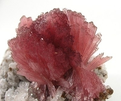 Inesite Locality: Fengjiashan Mine (Daye Copper mine), Edong Mining District, Daye County, Huangshi Prefecture, Hubei Province, China (Locality at ) Size: 5.5 x 4.0 x 3.1 cm. This piece has an unusually 3-dimensional spray and superb color. These specimens came out a few years ago at their best, and most seem to have gone to Steve Smale. From him, this fine miniature went to Francis Benjamin in exchanges. It is illustrated and is important because it has distinct, isolated crystals that fan out nicely from the core of this 3-dimensional spray. Most of these specimens are more "jumbled" or in wheat-sheave-like bundles. These are the best inesites since a small pocket in the early 1980s in South Africa.